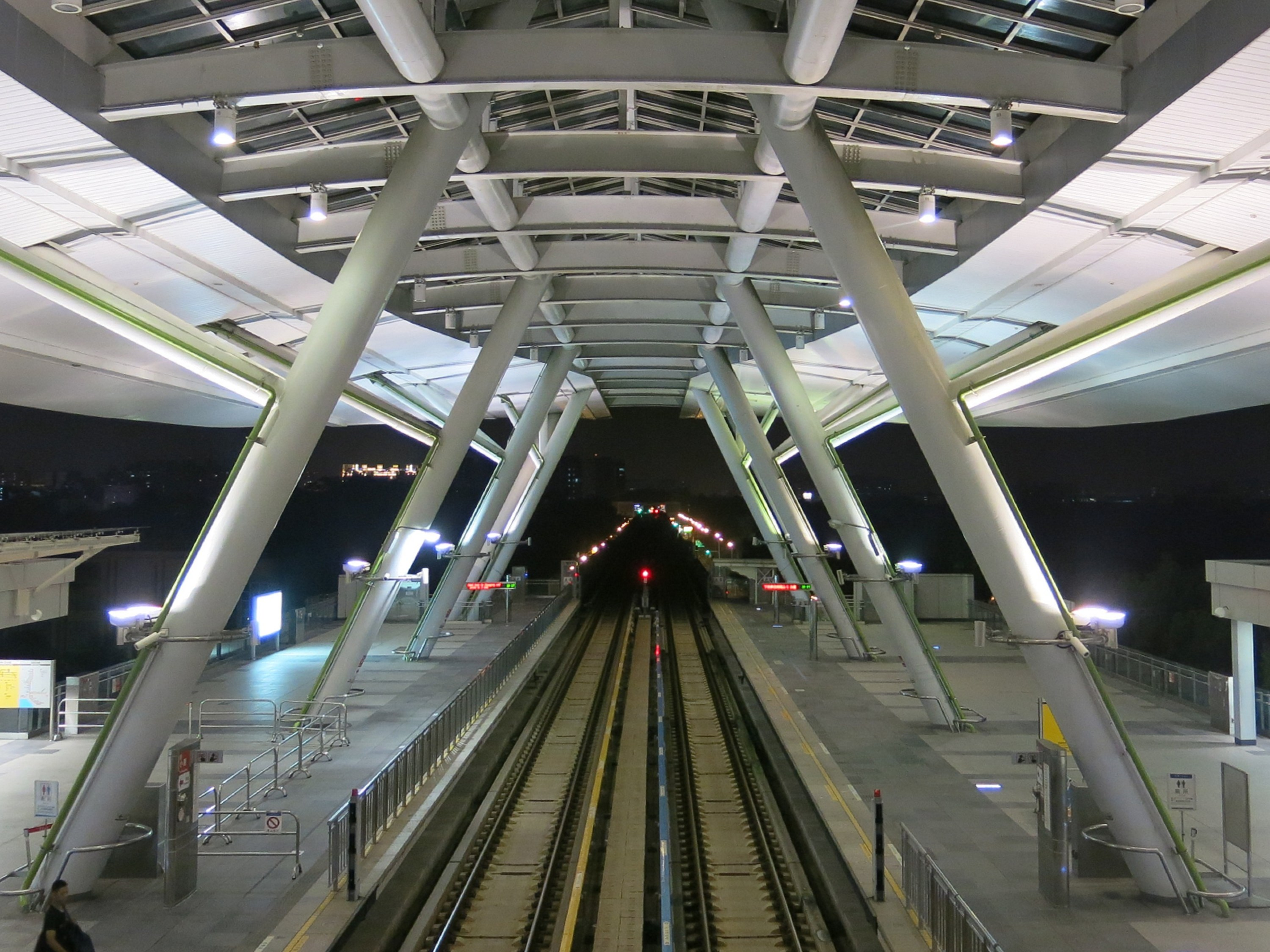 KRTC R17 sta. in the nighttime